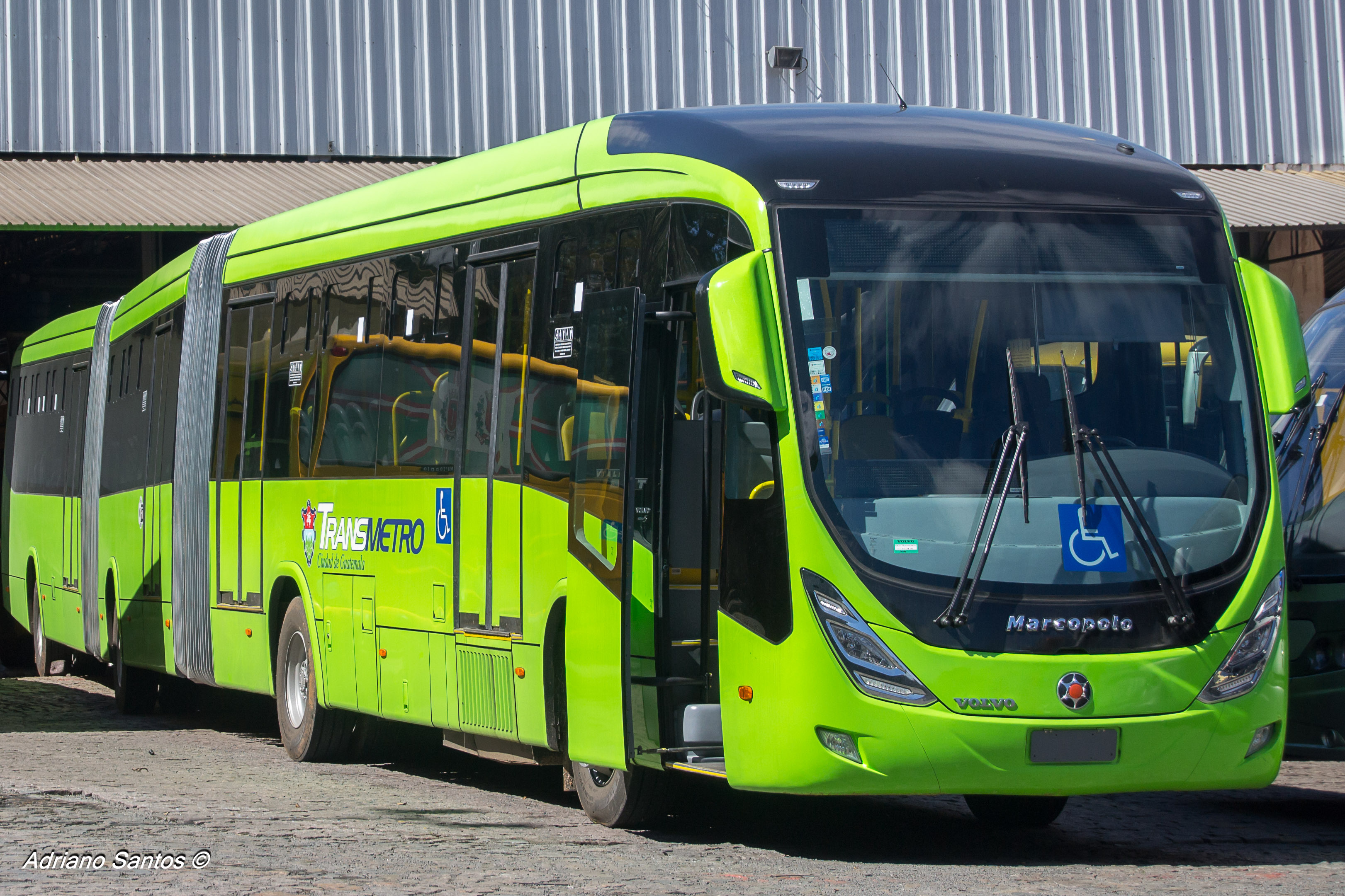 Unidad bi-articulada de 30 metros de largo del Transmetro que sirve a la Ciudad de Guatemala y Villa Nueva